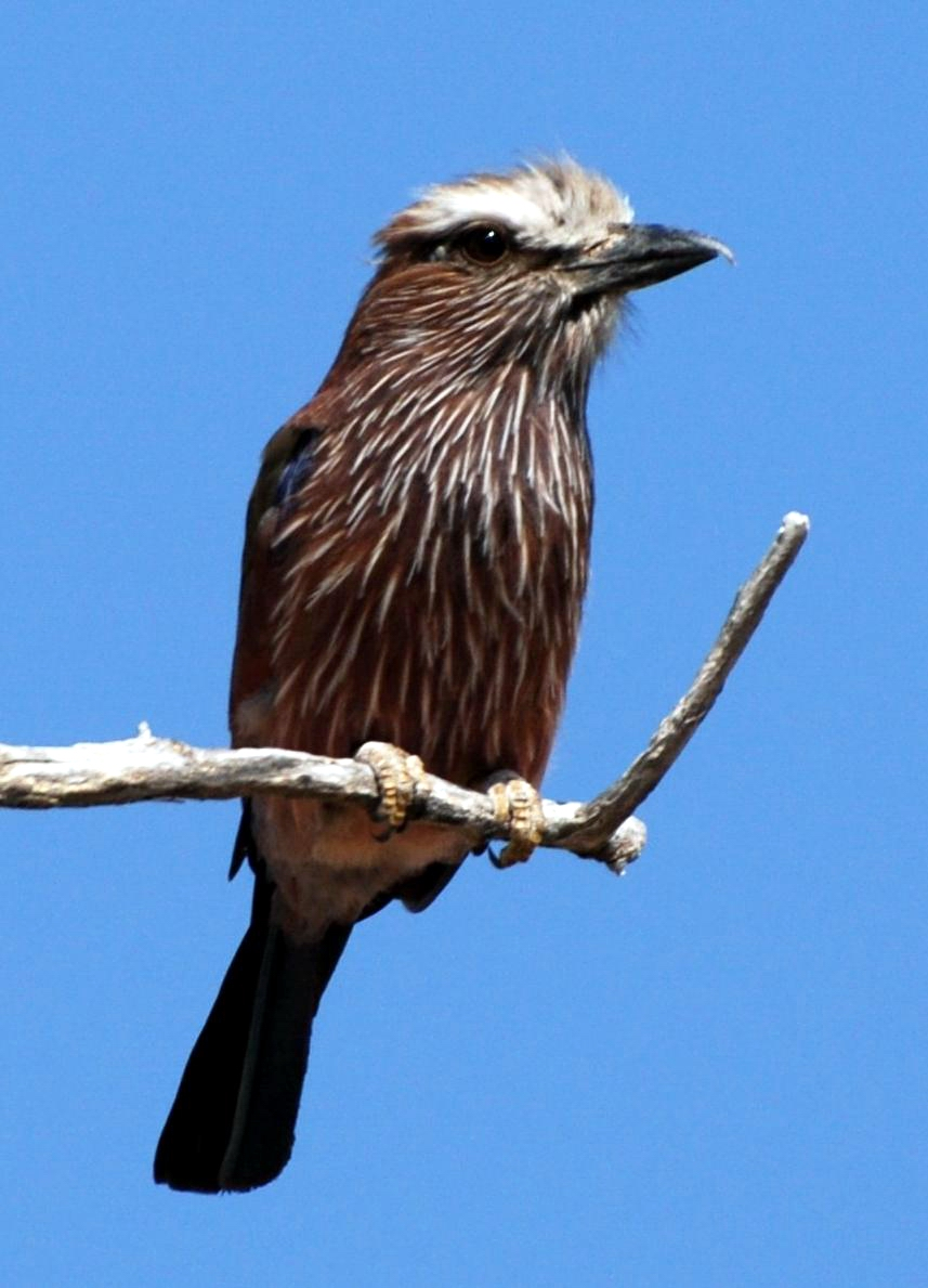 Rufous-crowned Roller (Coracias naevia) in Etosha National Park, Namibia